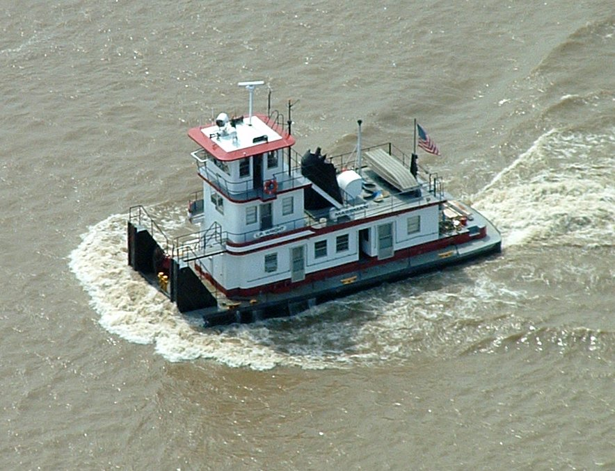 A tugboat moving upstream on the Mississippi River. Photographed June 15, 2006 from the Jefferson National Expansion Memorial, St. Louis, Missouri by Kelly Martin.